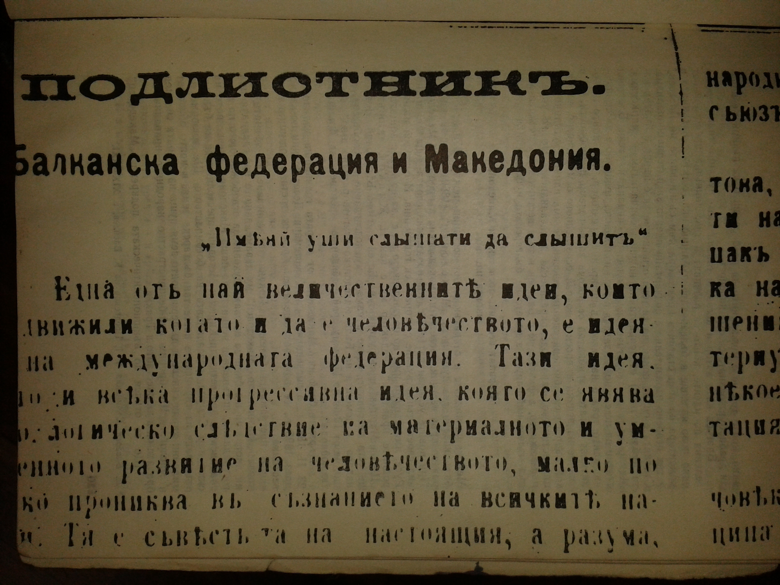 Article "Balkan Federation and Macedonia" in the paper "Makedonski Glas"